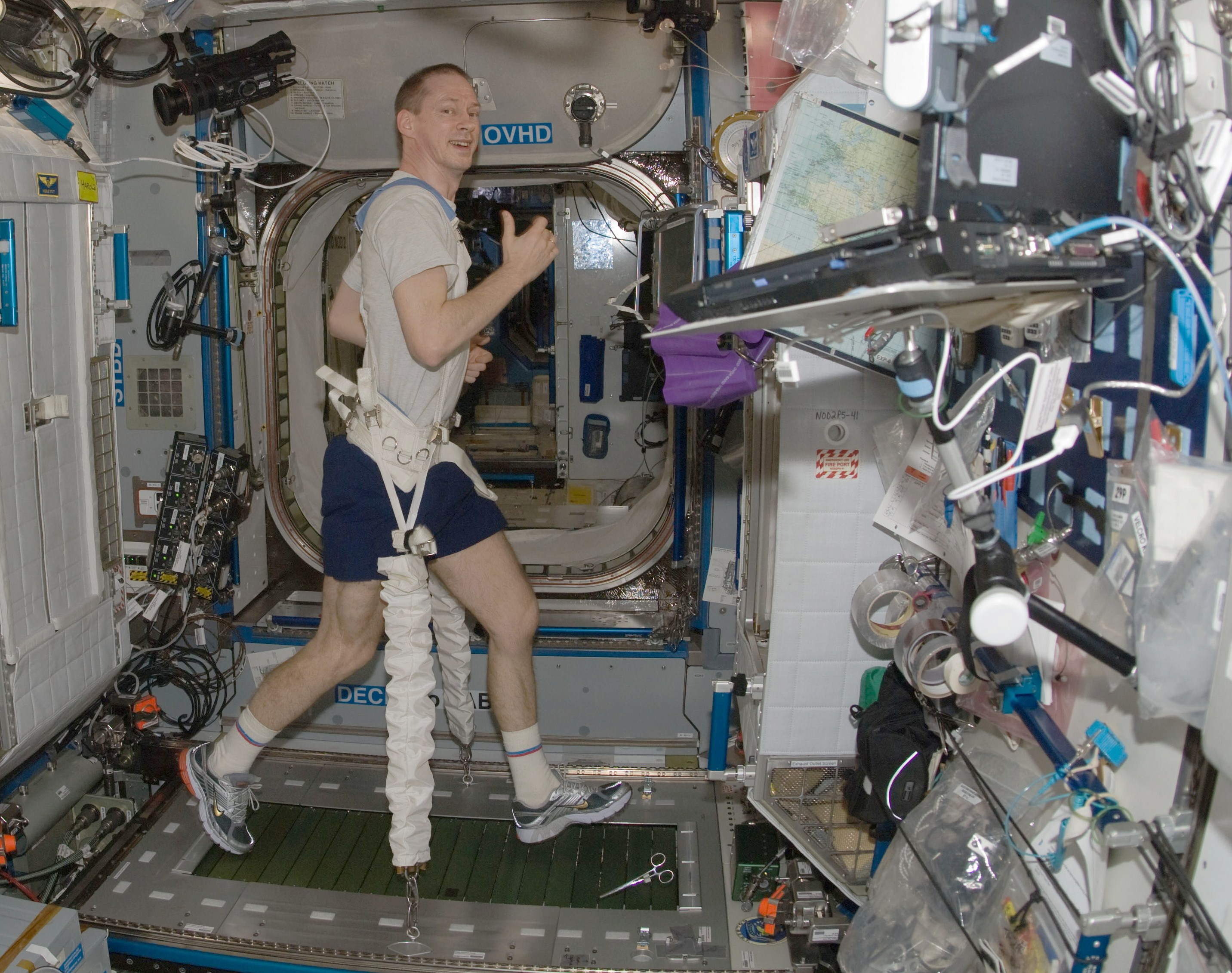 European Space Agency astronaut Frank De Winne, Expedition 21 commander, exercises on the Combined Operational Load Bearing External Resistance Treadmill (COLBERT) in the Harmony node of the International Space Station.